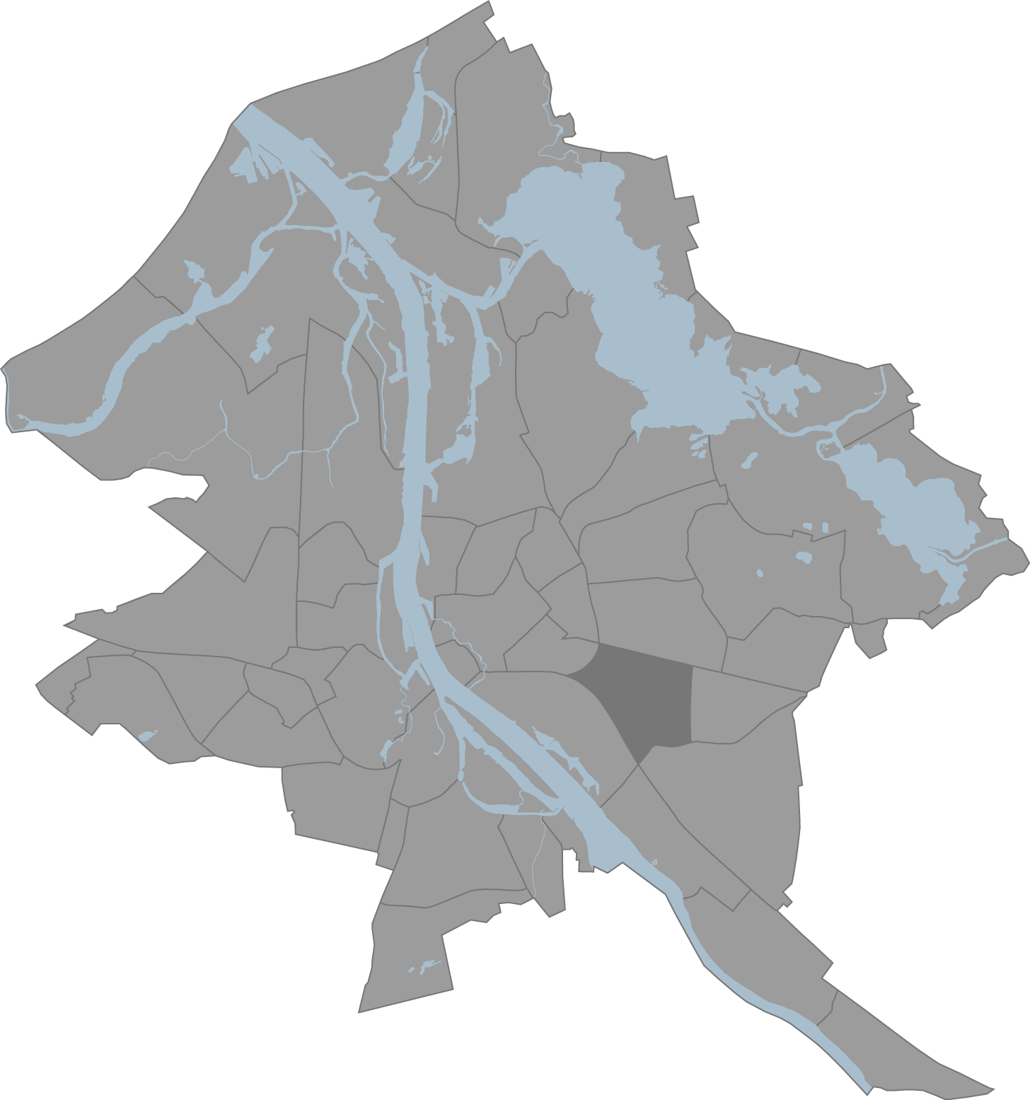 A map of Riga, Latvia with the eponymous commune highlighted